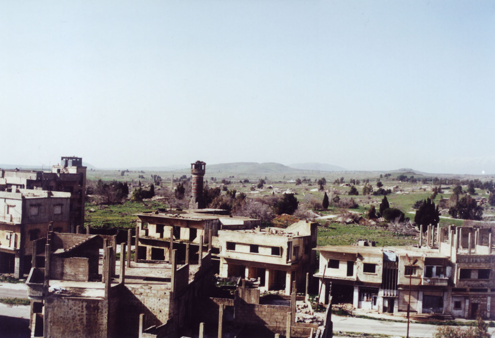 Quneitra as seen in March 2001.